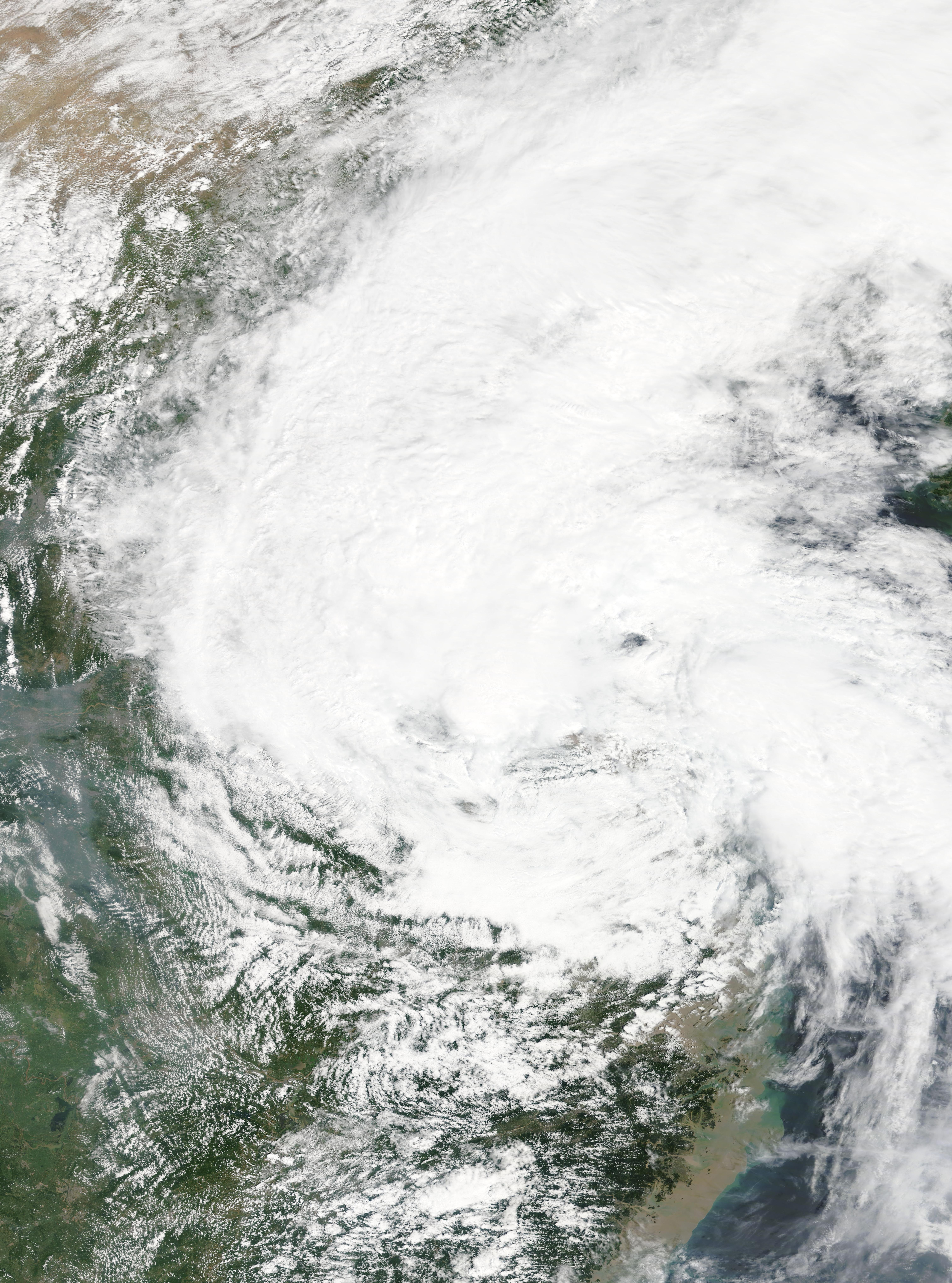 Tropical Storm Lekima (10W) over northern China